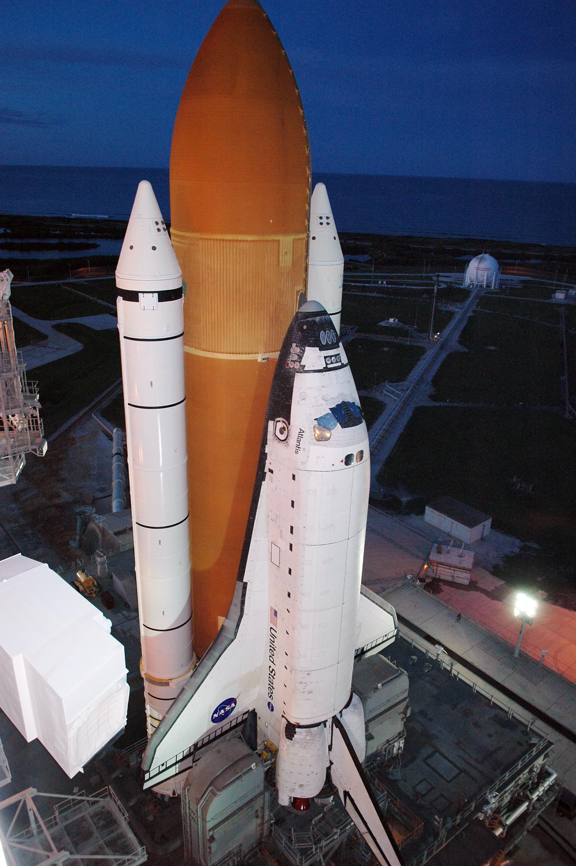 KENNEDY SPACE CENTER, FLA. – After sunset, Space Shuttle Atlantis is bathed in light from the fixed service structure on Launch Pad 39B. At left is the White Room, which is situated on the end of the orbiter access arm and moved into place for the crew to enter the shuttle. The shuttle had been moved off the launch pad due to concerns about the impact of Tropical Storm Ernesto, expected within 24 hours. The forecast of lesser winds expected from Ernesto and its projected direction convinced Launch Integration Manager LeRoy Cain and Shuttle Launch Director Mike Leinbach to return the shuttle to the launch pad.